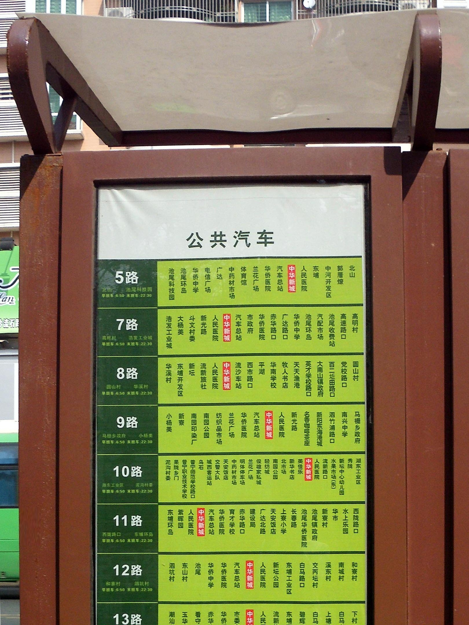 The Board of The Bus Stop of Zhanghuaxincheng at Puning